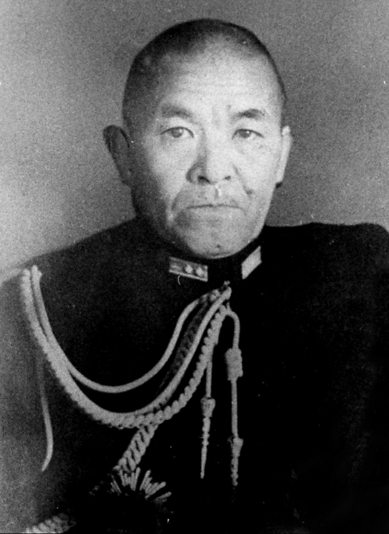 Japanese officer photograph of Chuichi Nagumo, this is during the person's career. Photograph owned and produced under the jurisdiction of the Japanese government during the person's career. Copyright and everything owned by the Imperial Japanese Navy